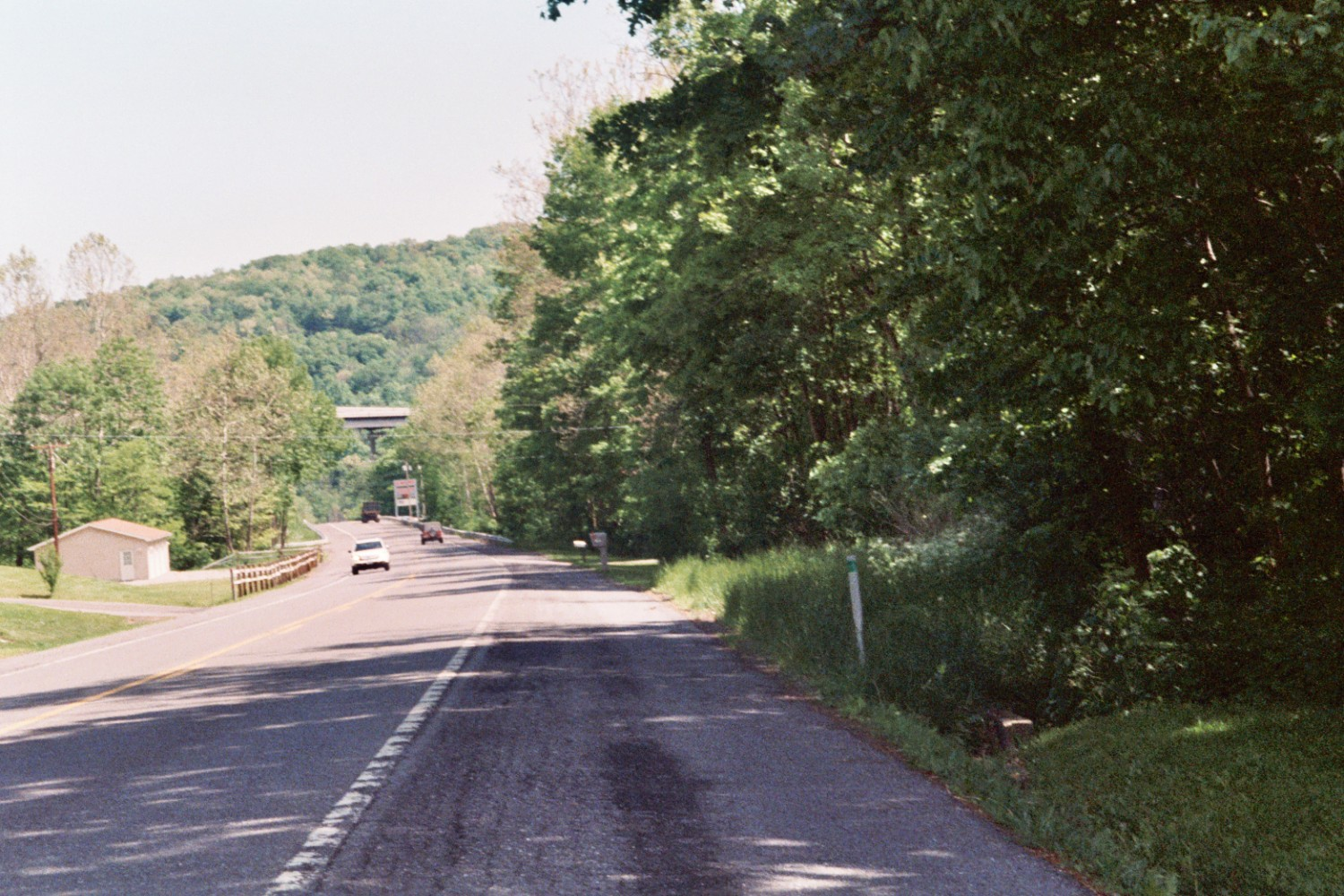 Maryland Route 55 south of Clarysville, Maryland. The Interstate 68 overpass is visible in the background.